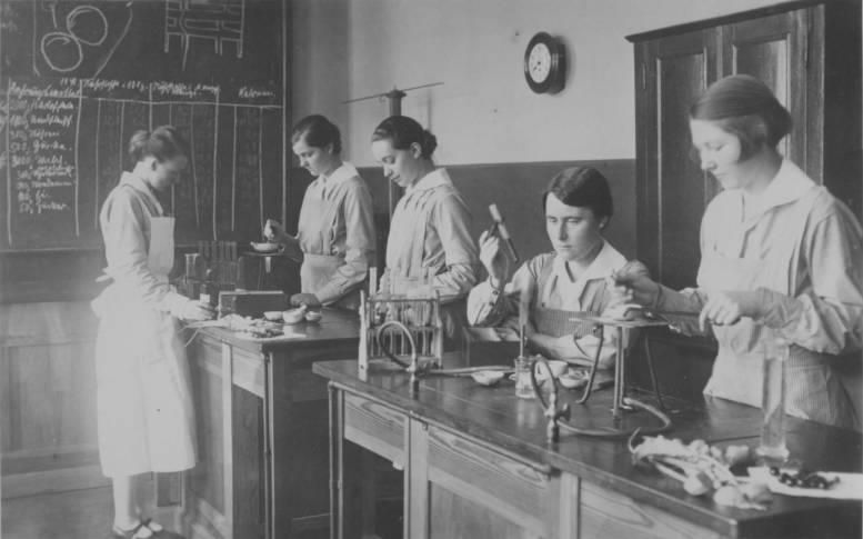 Reifensteiner Schule Chemieunterricht Maidhof 1926